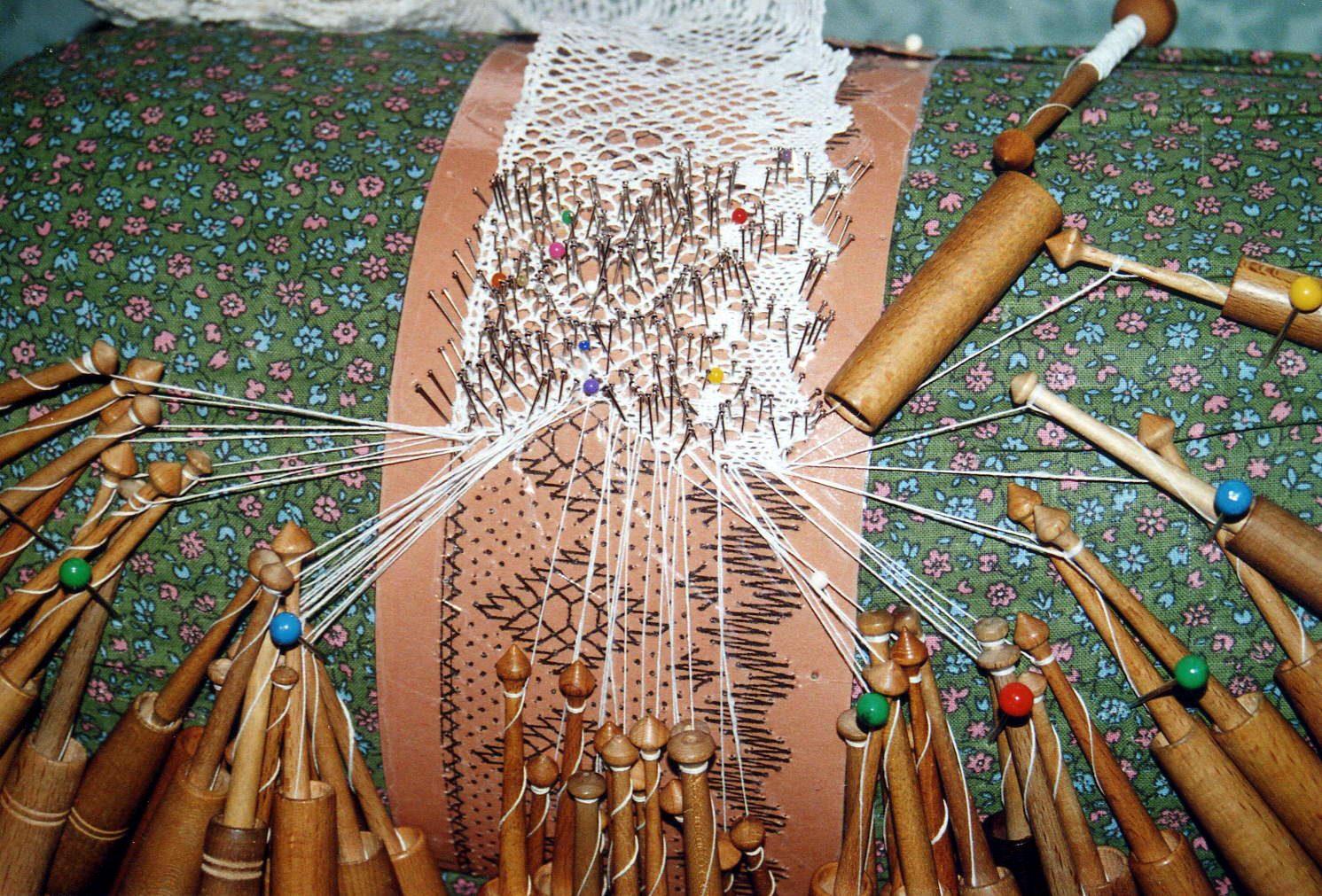 This image shows a Bobbin lace.